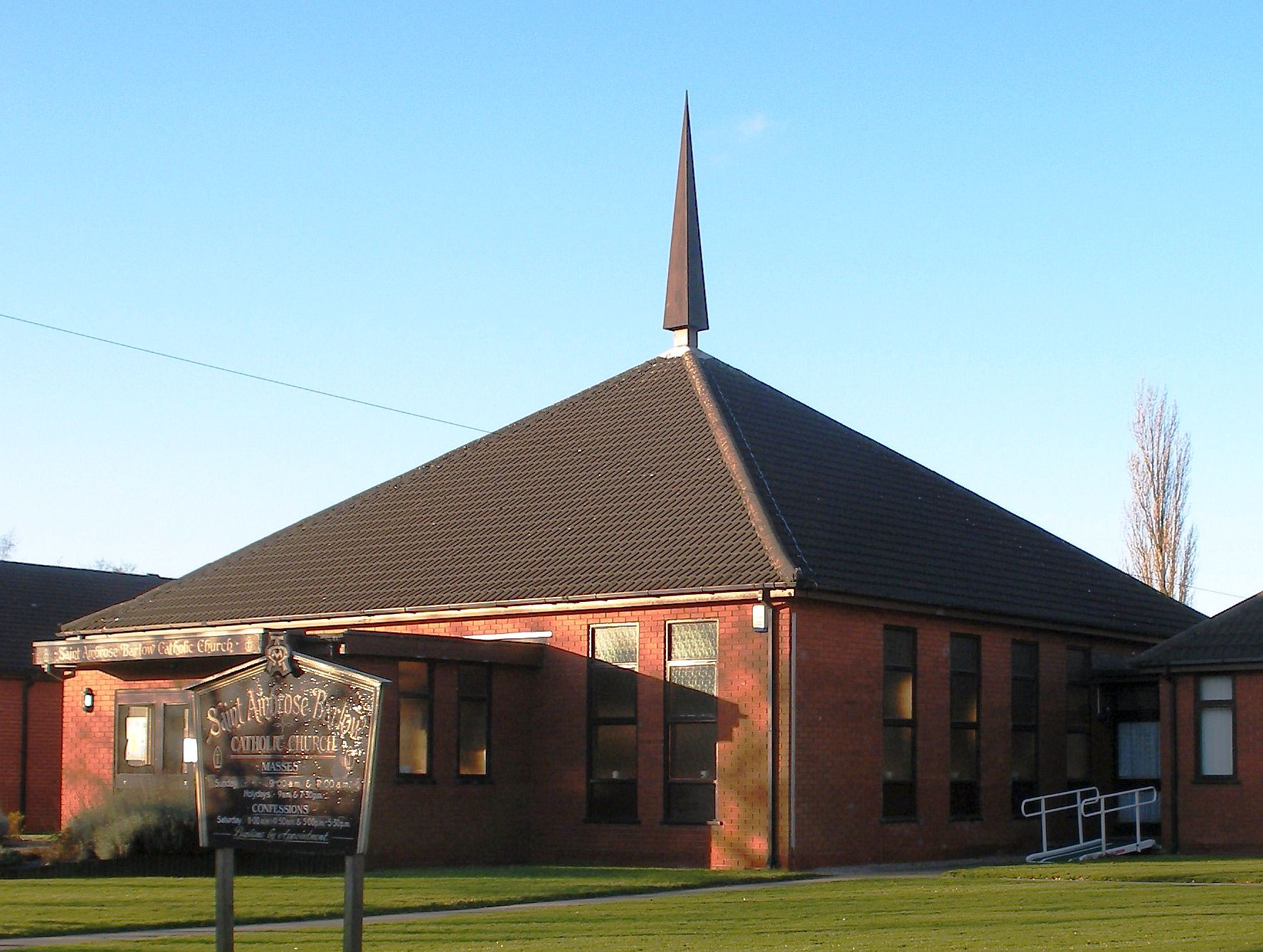 St Ambrose Barlow Roman Catholic Church, Astley, Greater Manchester, England